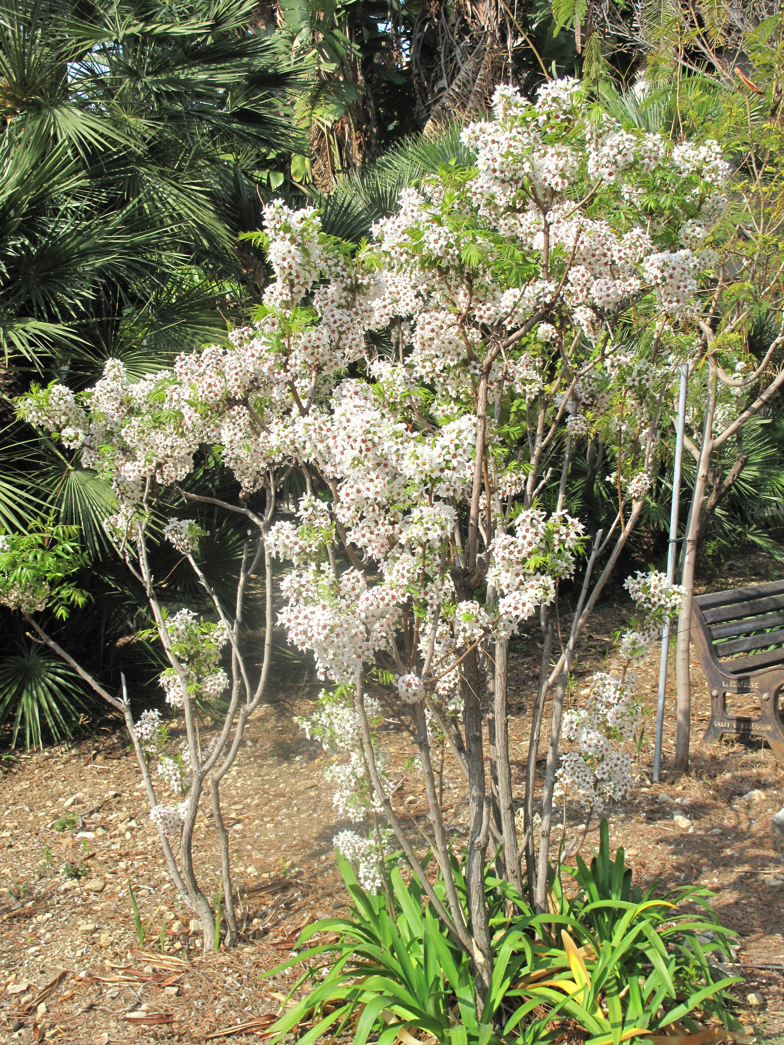 Xanthoceras sorbifolium in the garden of the villa Maria Serena in Menton (Alpes-Maritimes, France). Identified by botanic label.